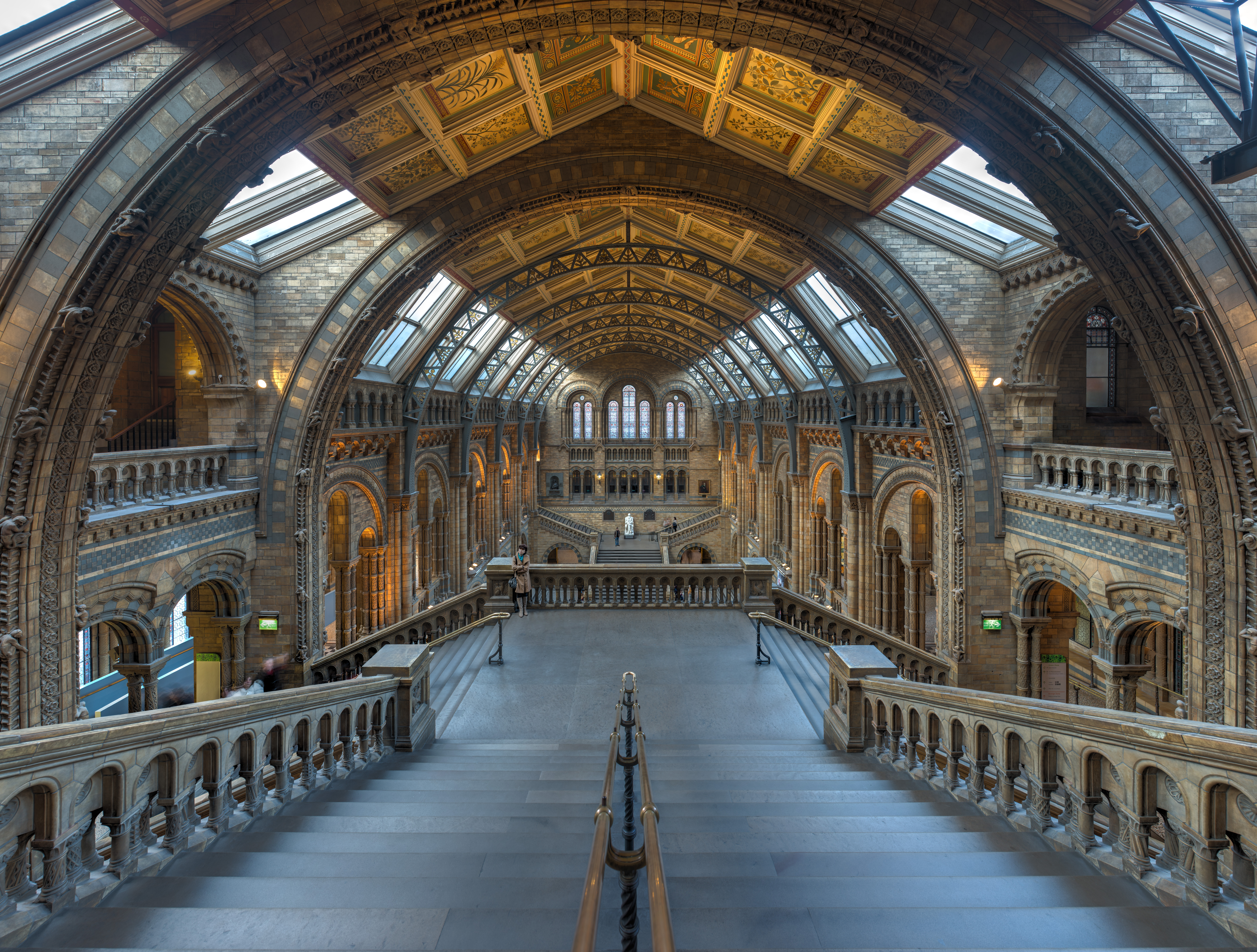 The Main Hall of the Natural History Museum in London, United Kingdom.